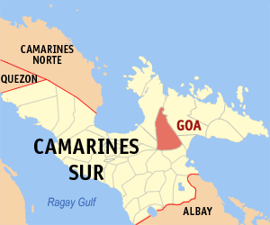 Map of Camarines Sur showing the location of Goa